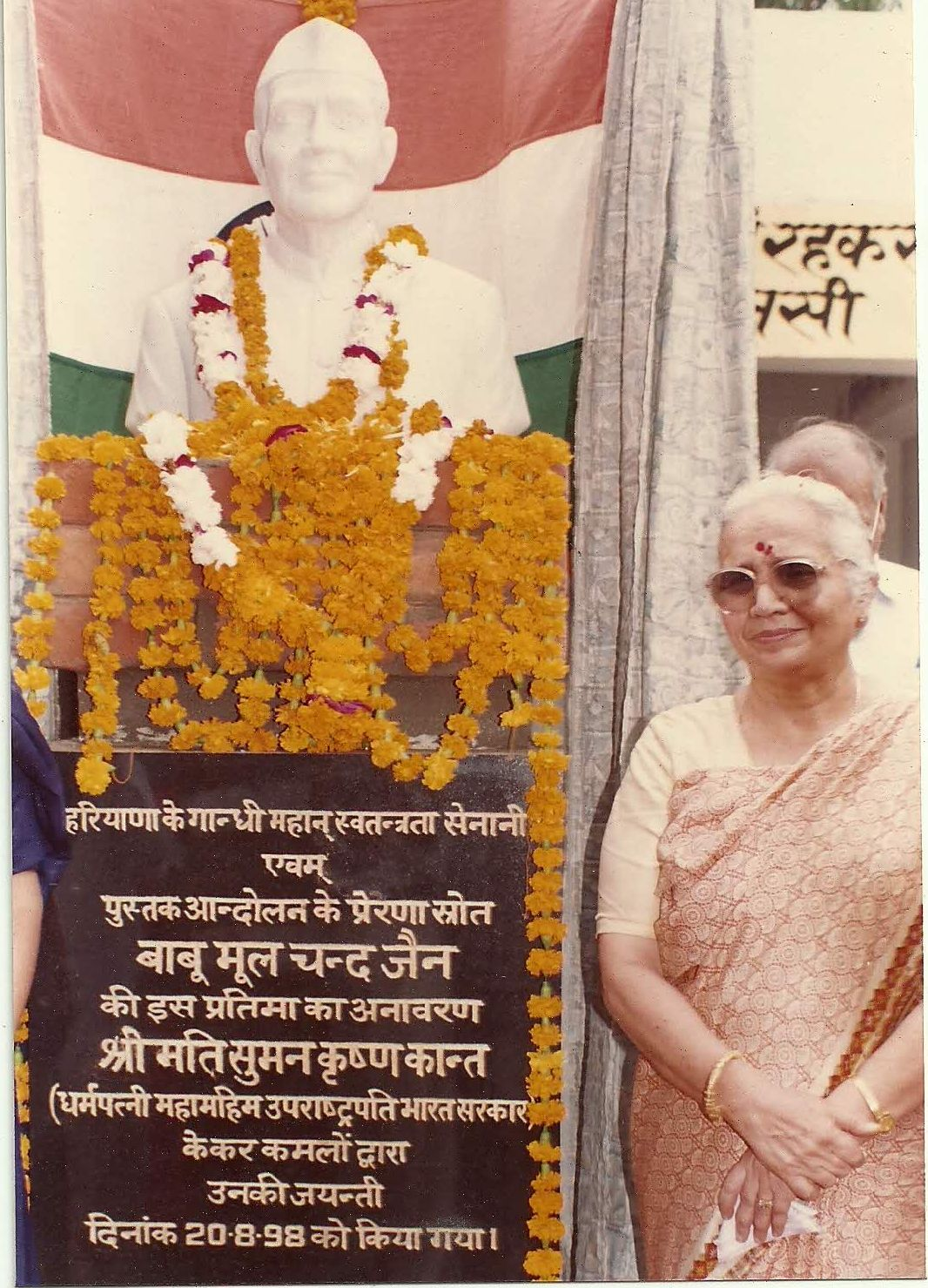 Smt. Suman Krishan Kant a unveiling statue of Babu Mool Chand Jain 20-8-1998